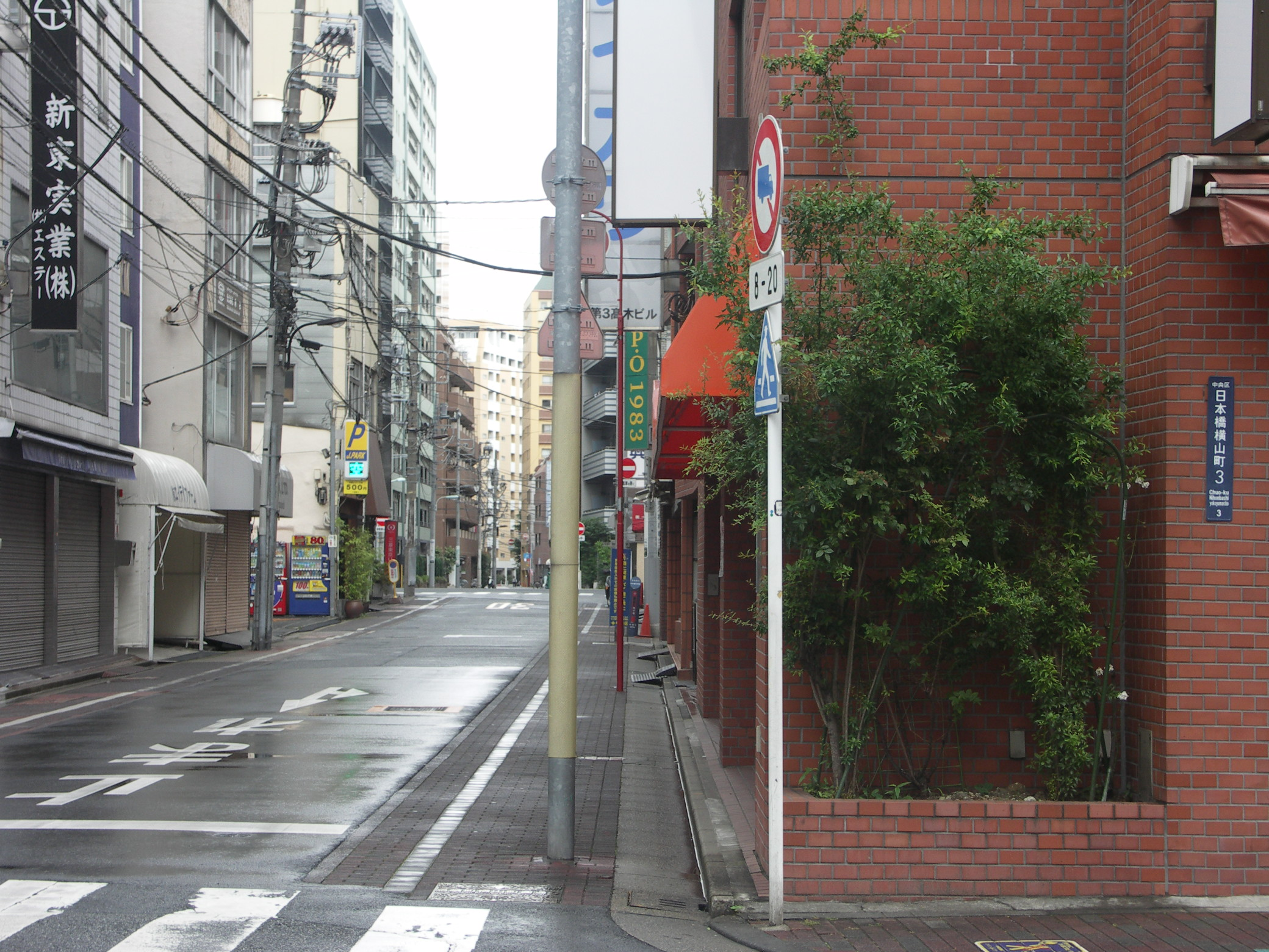 Nihomnashi-yokoyamacho 3, Tokyo,Japan.